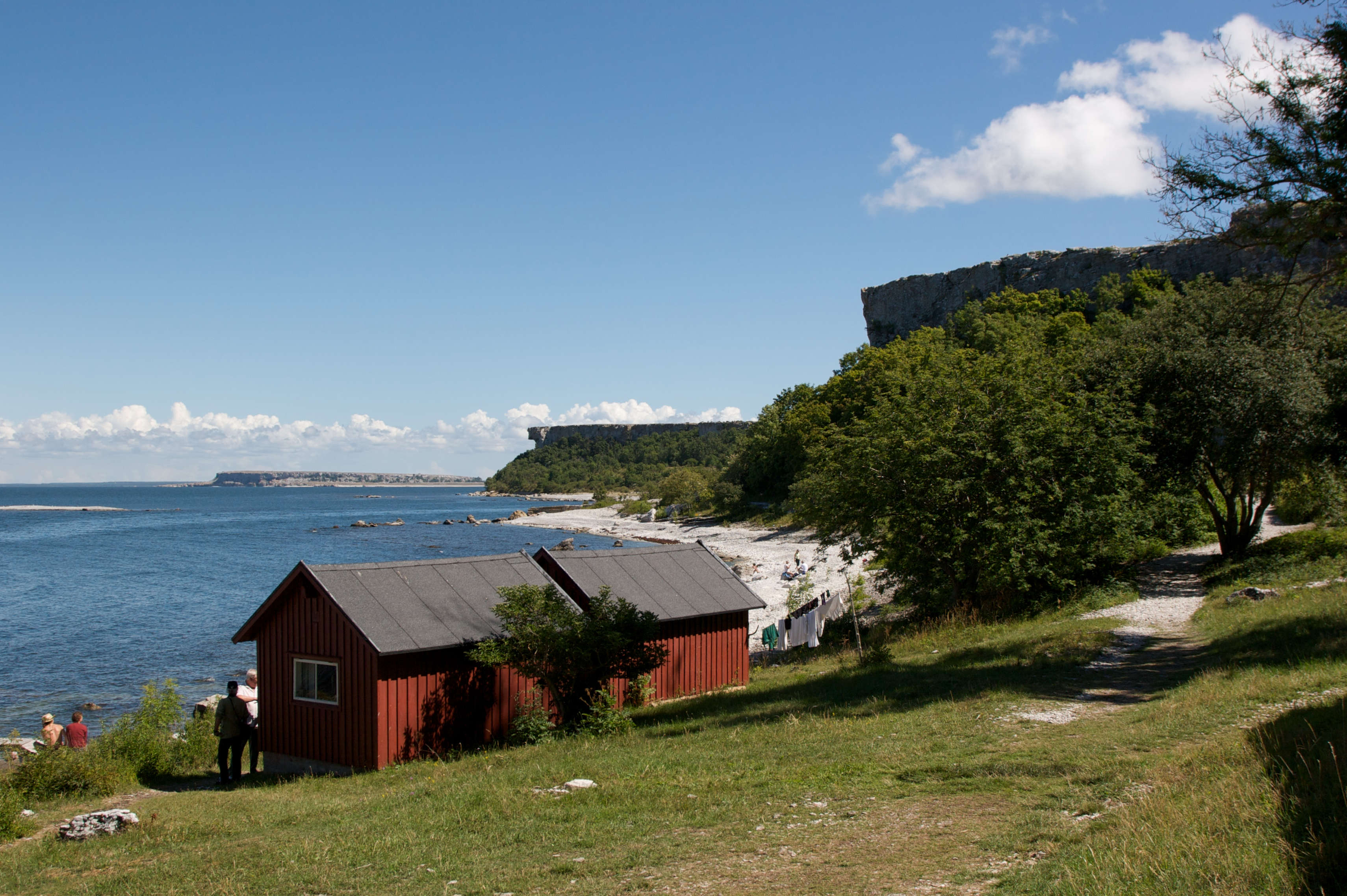 Stora Karlso. In the background Lilla Karlso. Sweden